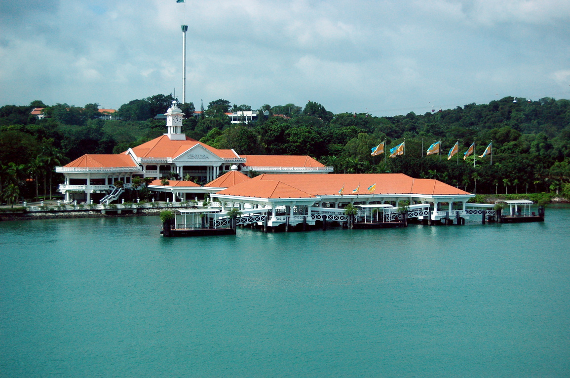 Sentosa Ferry Terminal, Singapore.